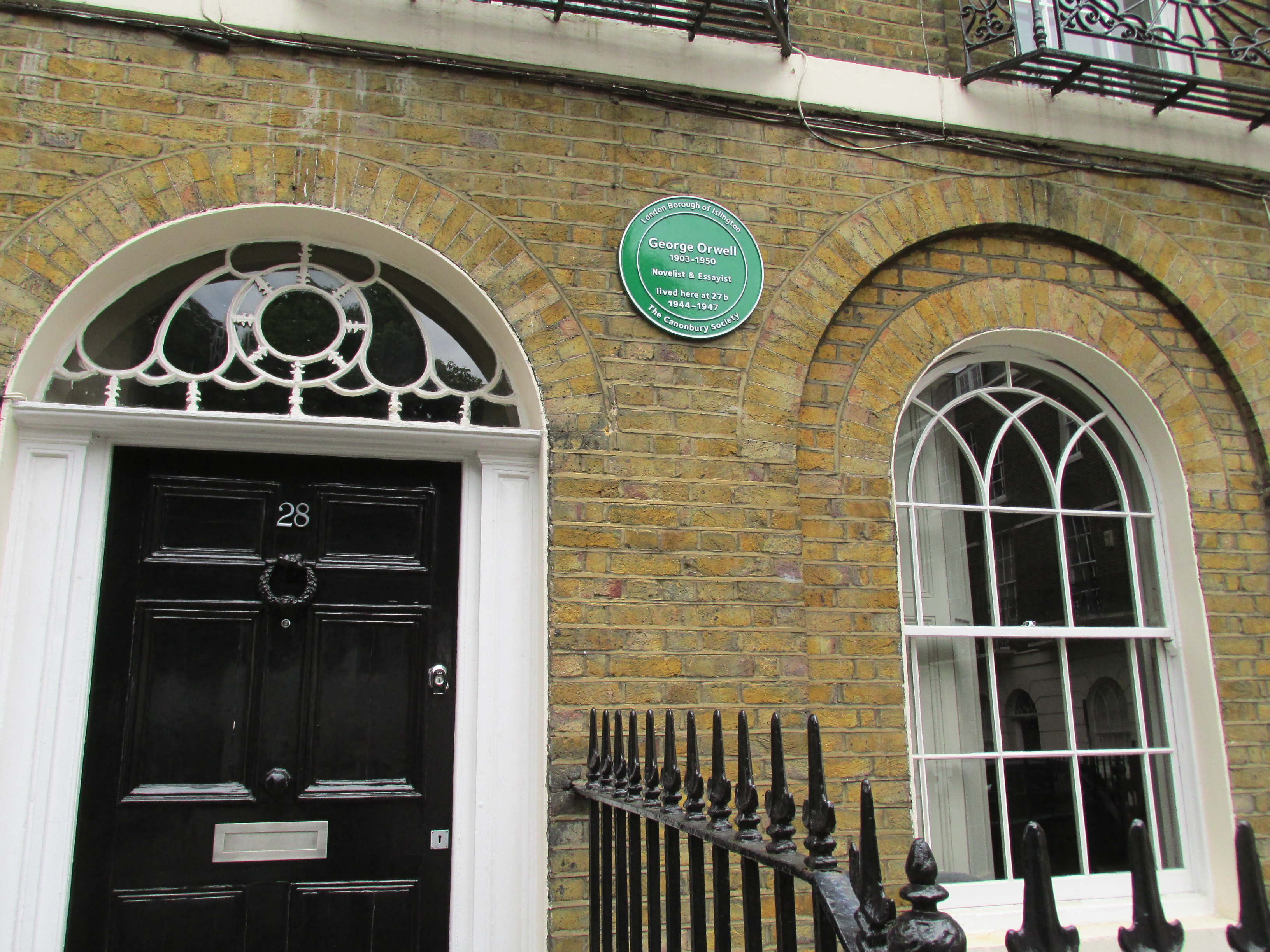 London May 30 2016 067 George Orwell Canonbury Square Islington (2)